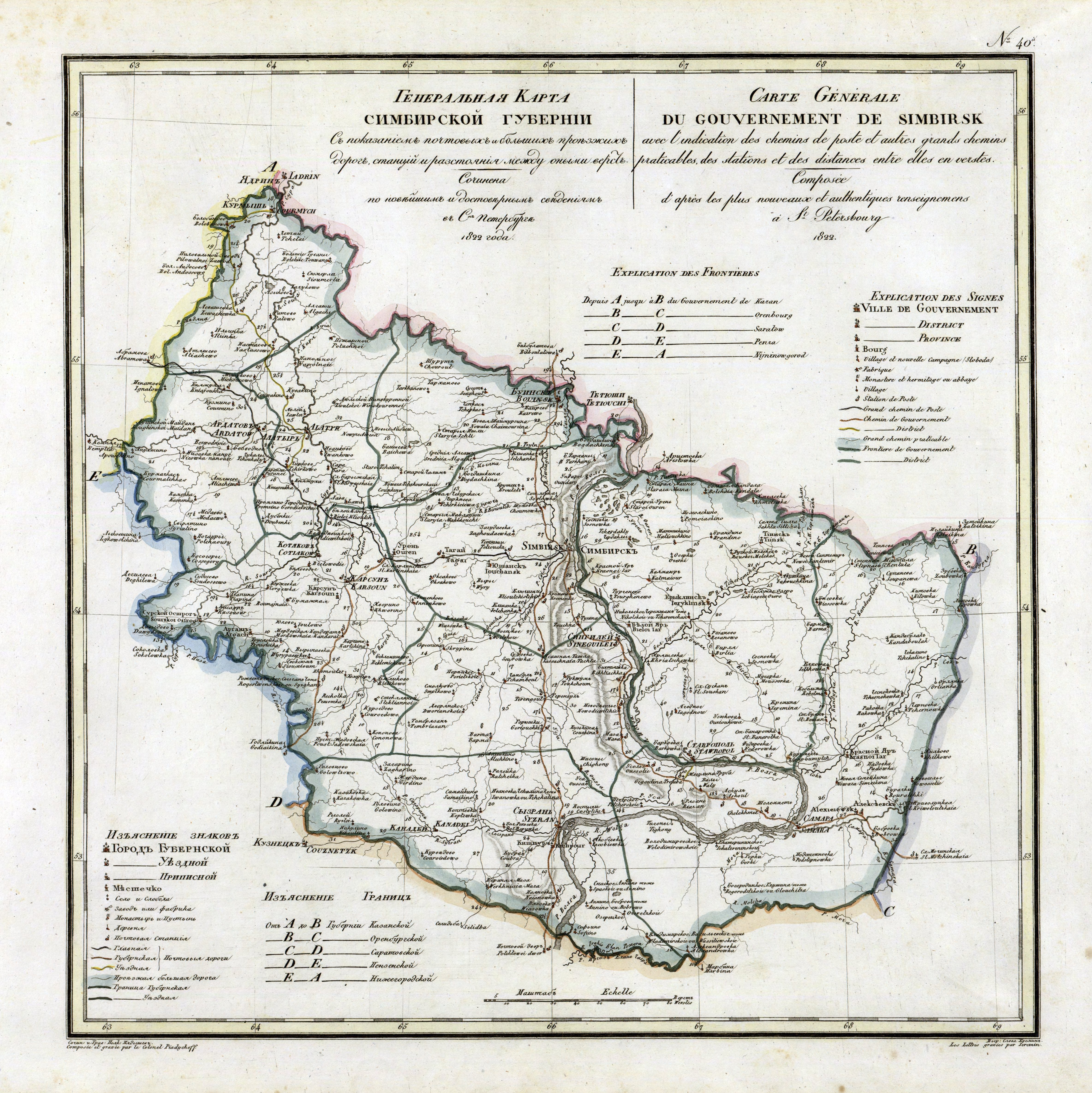 Simbirsk governorate